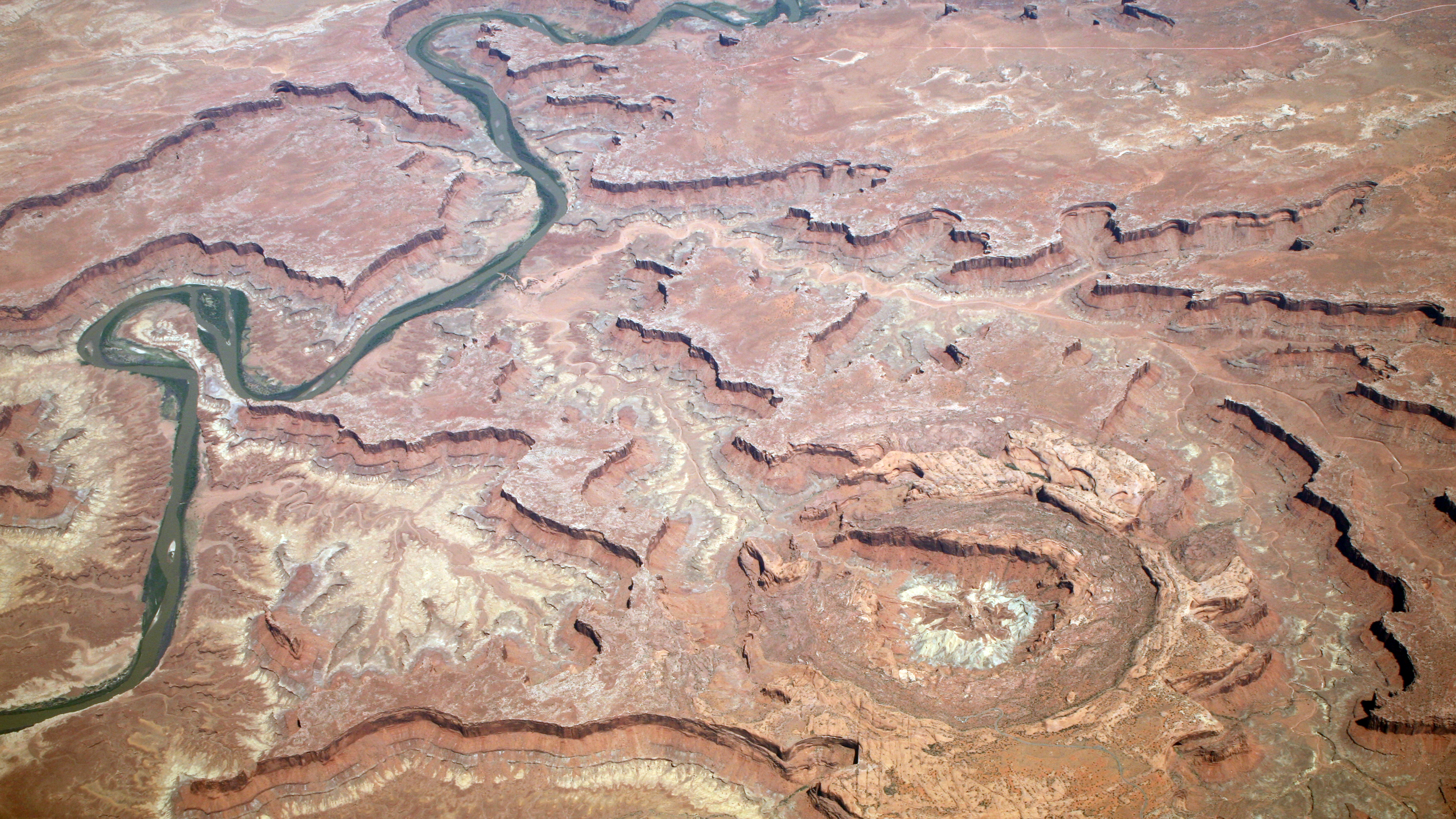 The Upheaval Dome, an impact crater, probably of Jurassic age, in Canyonlands National Park west of Moab, Utah. It's about 5 km (2 mi) from rim to rim, though concentric circles from the impact itself are visible in the surrounding surface.